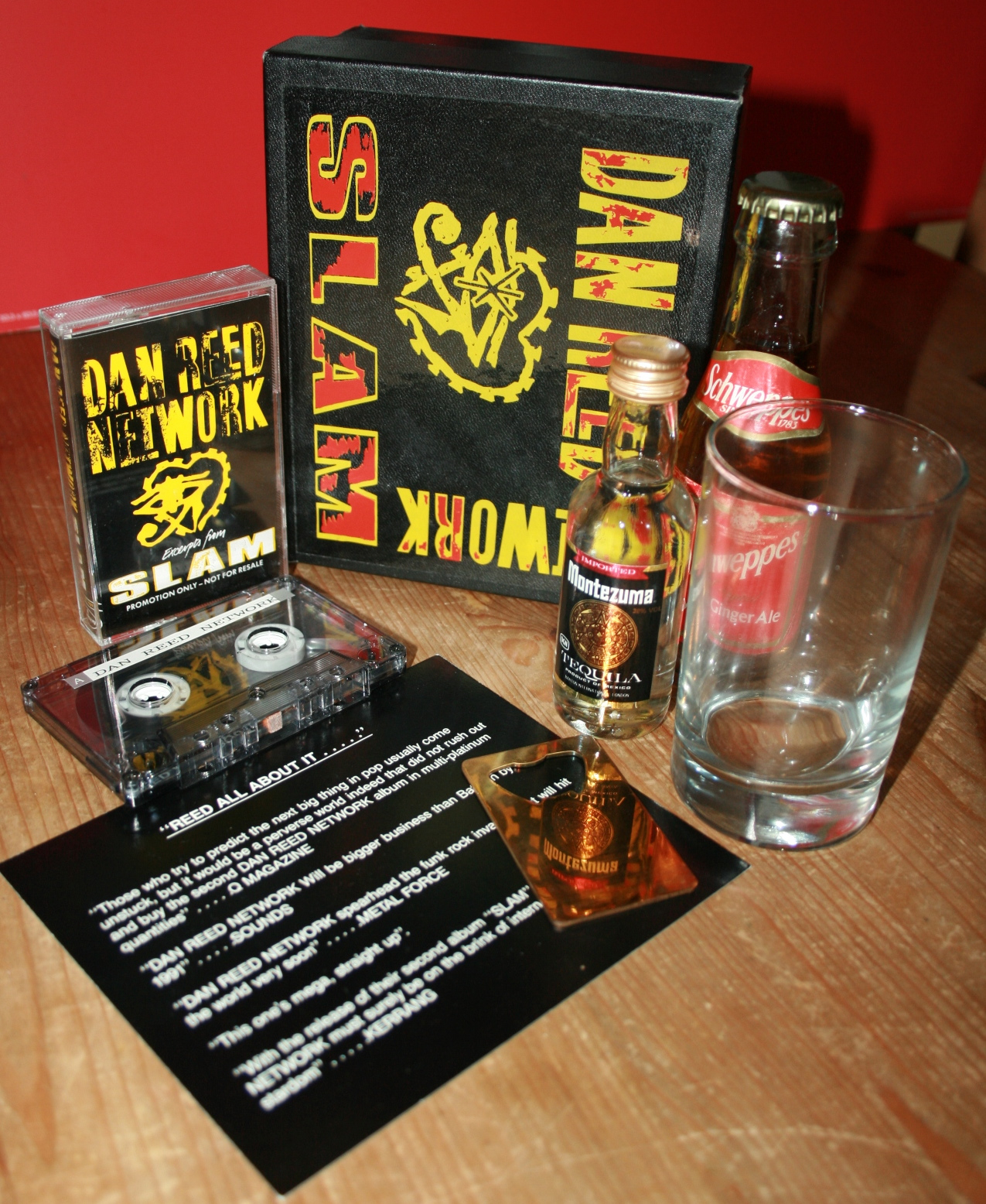 Promotional stuff for Dan Reed Network's Album "Slam", handed to journalists and record dealers